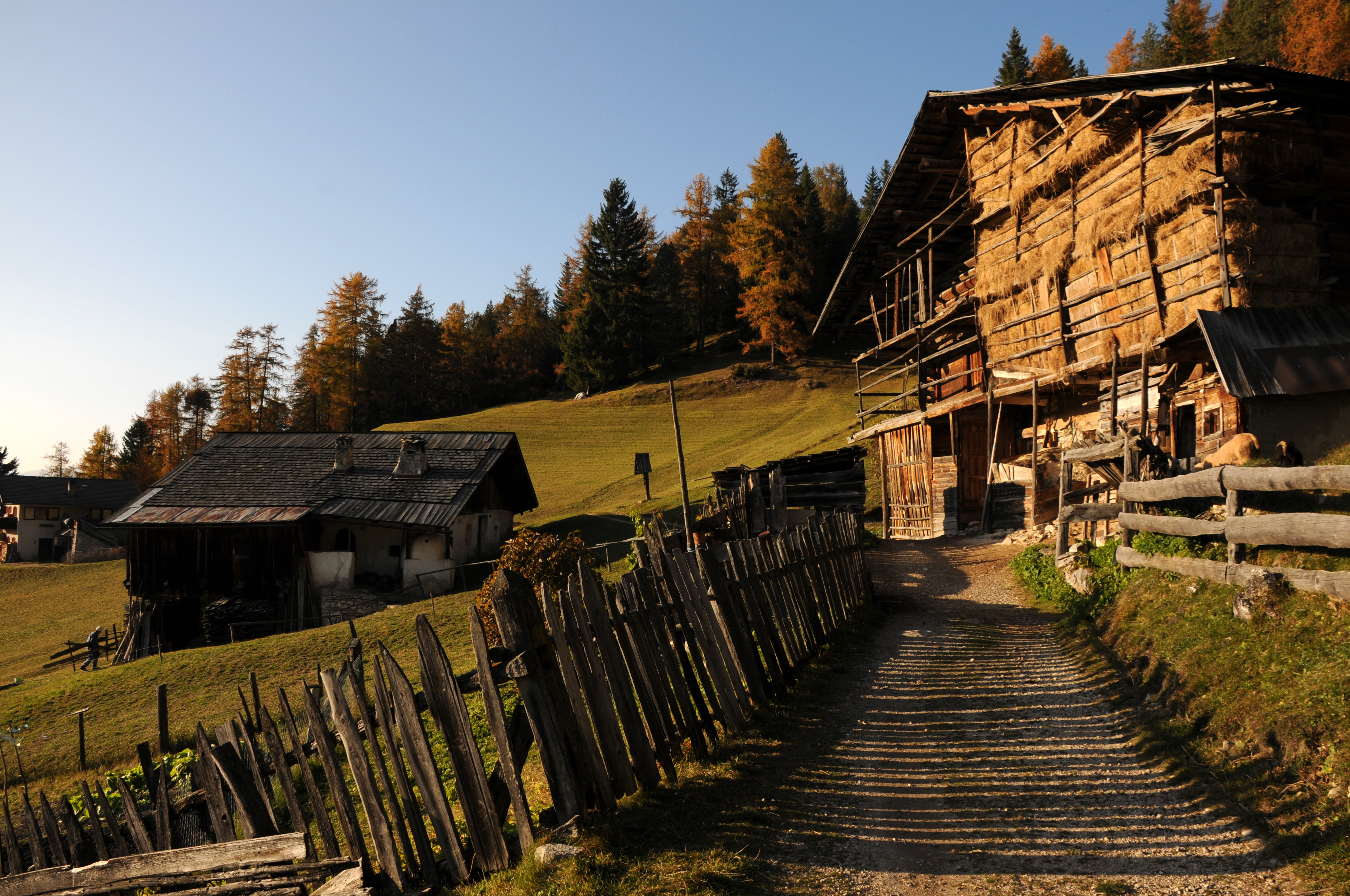 The farmhouse Peza in Urtijëi Gherdëina, one of the last remaining.